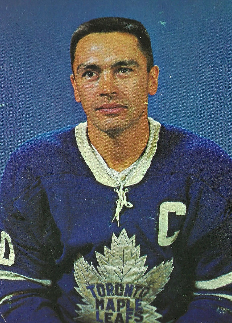 George Armstrong, Toronto Maple Leafs Printed on Chex Cereal Boxes from 1963 to 1965 per [1] and the original eBay auction link. No copyright notices are observed on the obverse or reverse of the photos.